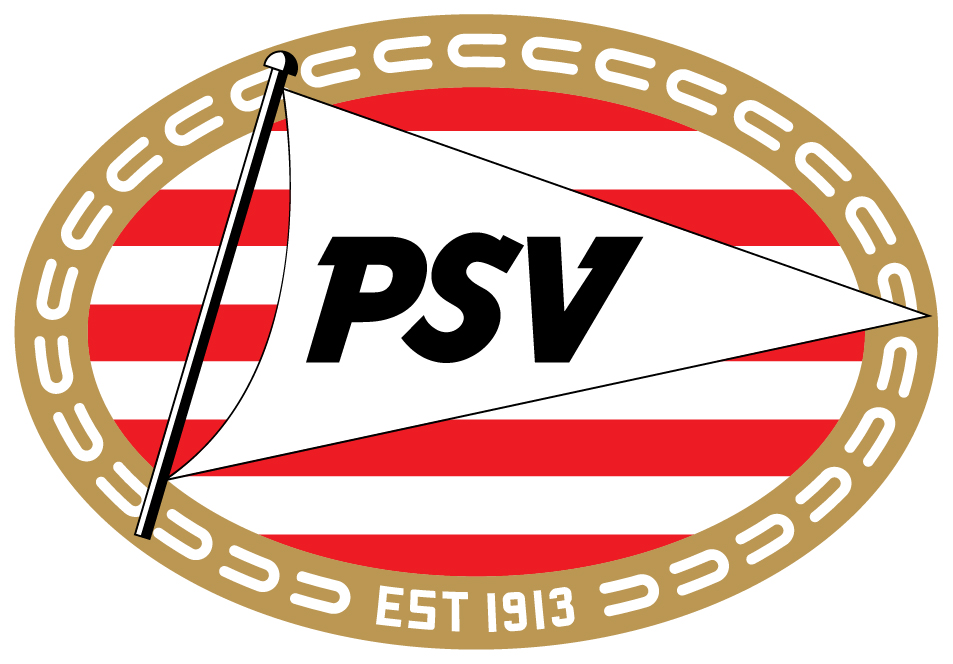 PSV logo on dressing room welcome message at the Philips Stadium in Eindhoven.